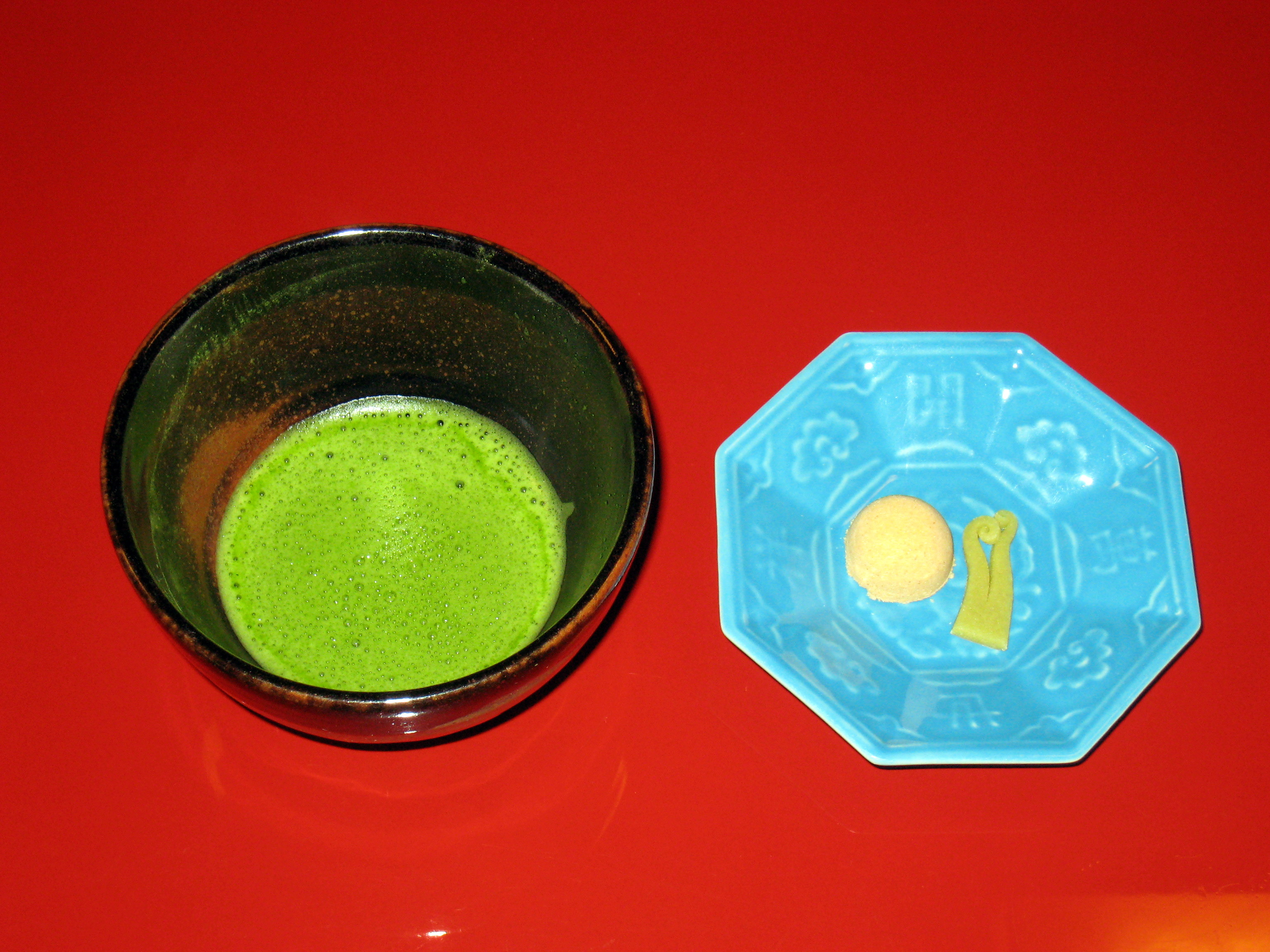 Matcha and wagashi